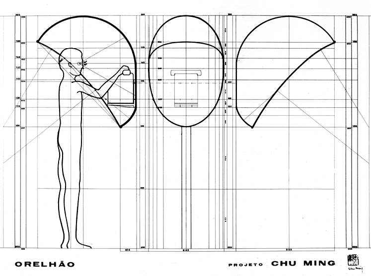 Projeto original do orelhão